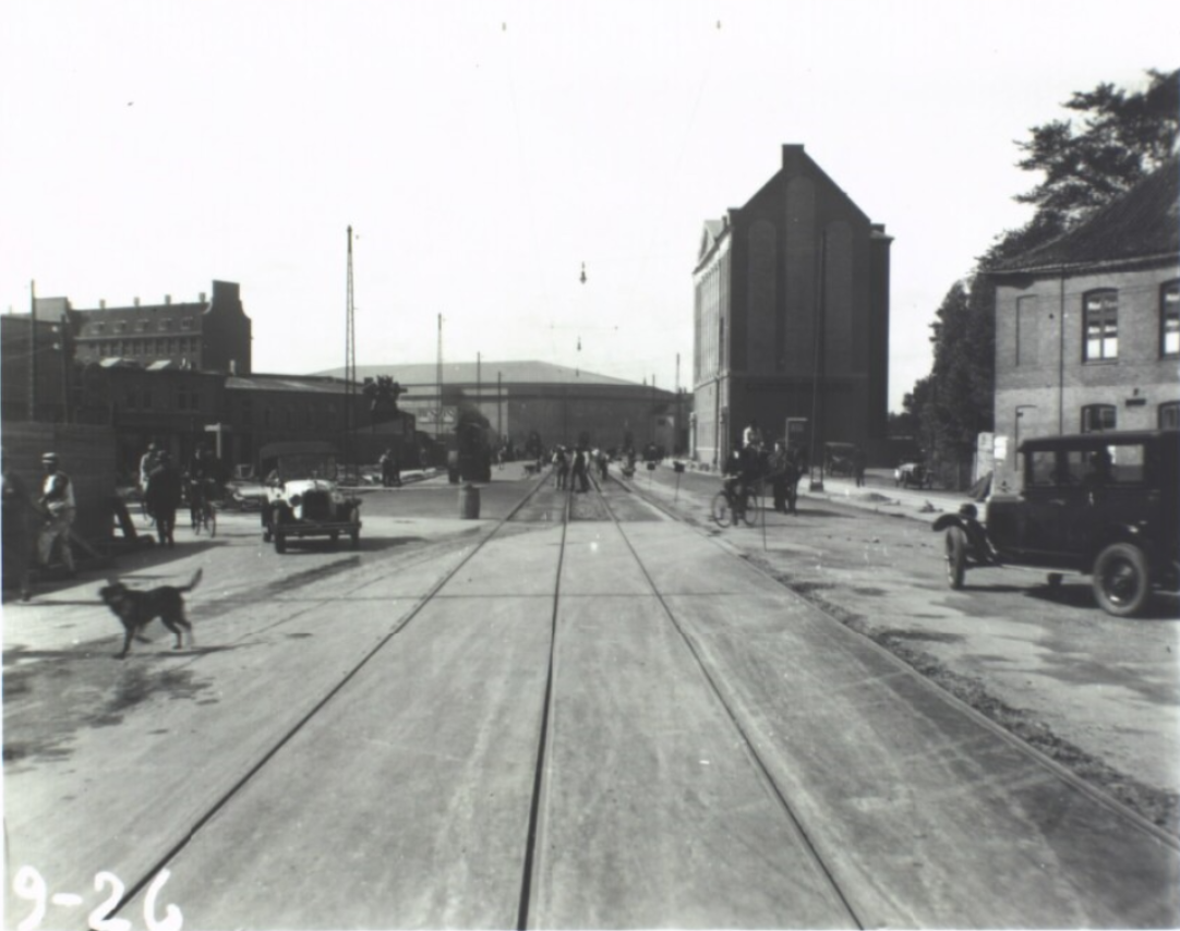 Rosenørns Allé in Copenhagen, Denmark